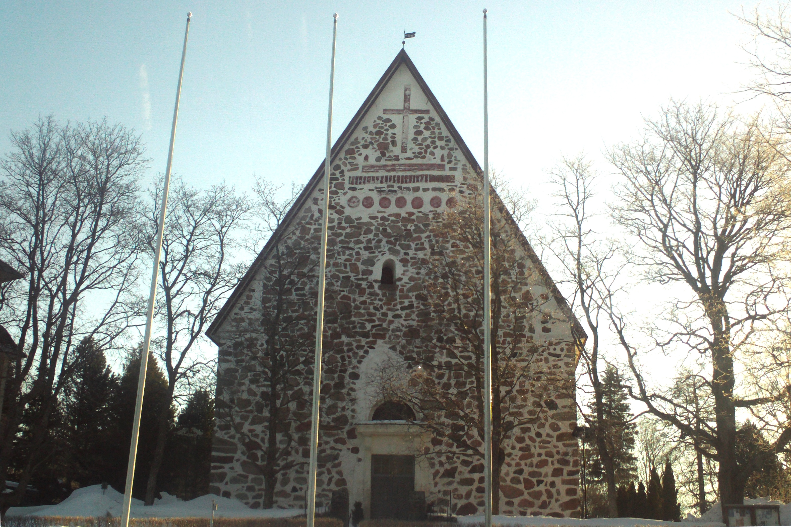 Church of St.Peter in Siuntio as seen from the road.